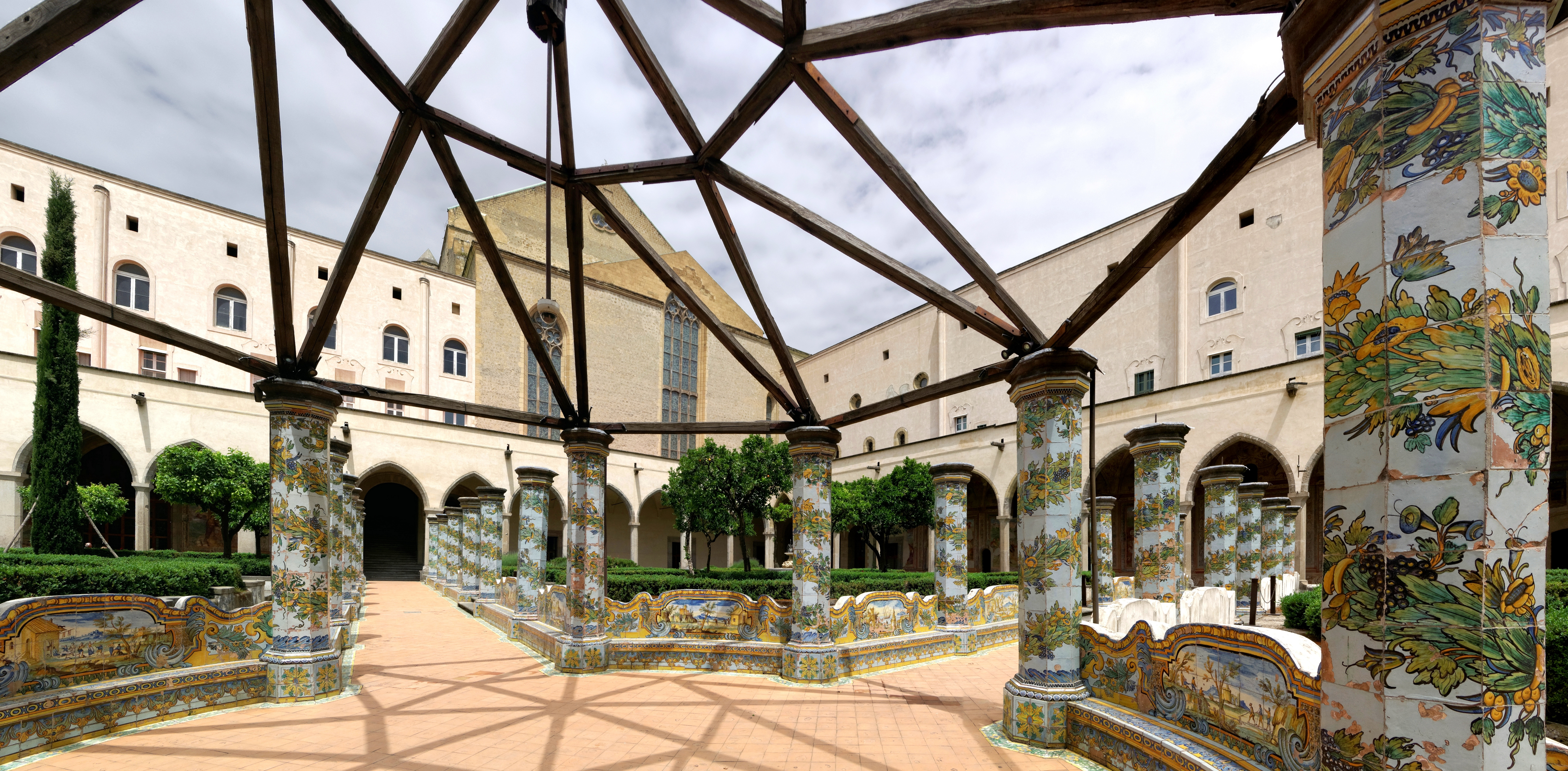 Naples, Chiostri di Santa Chiara